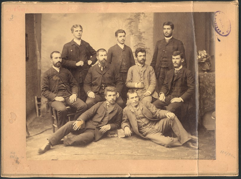 Teachers in Razgrad Men School in 1888/1889 school year